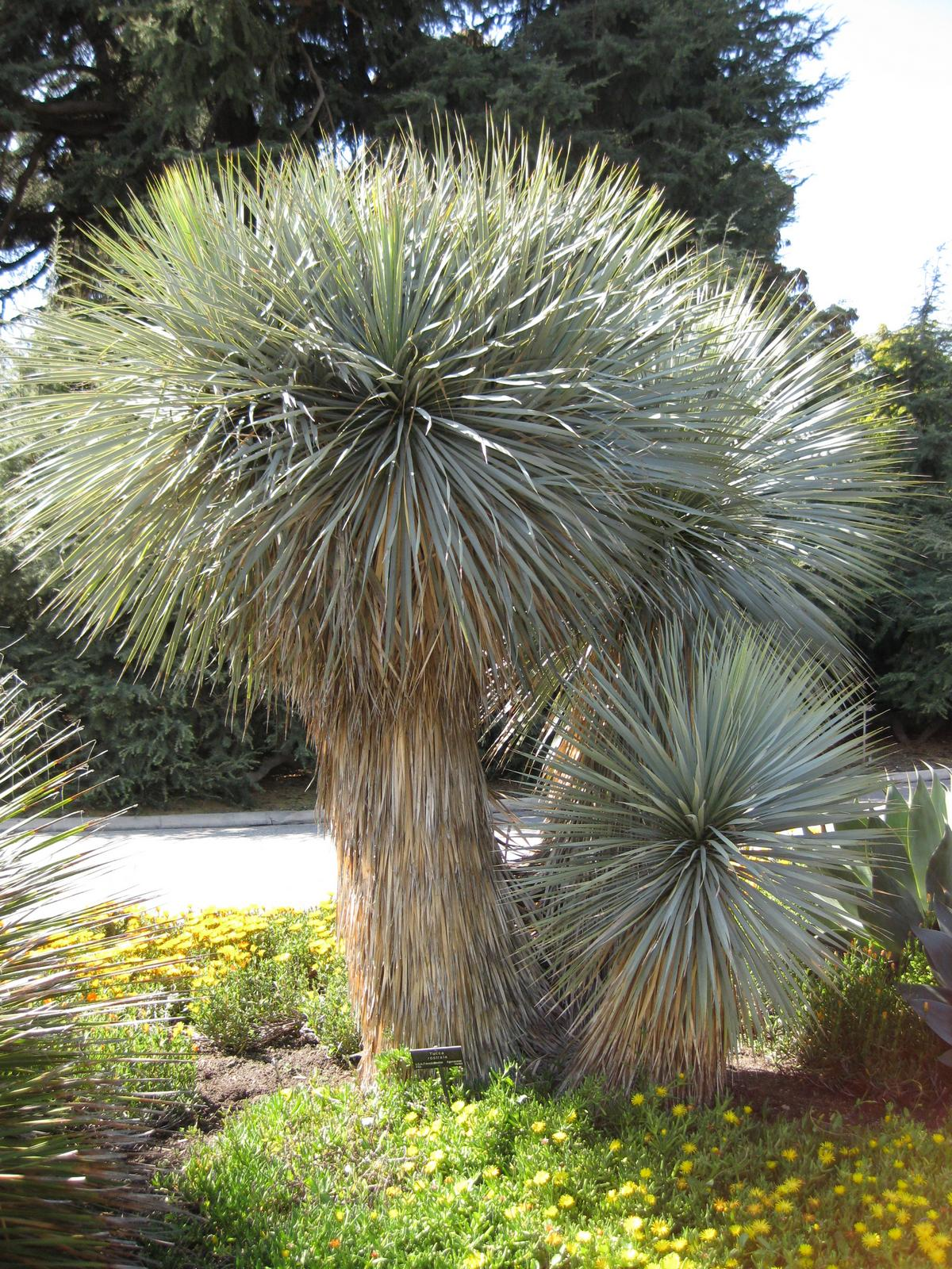 Photographed at Huntington Gardens (Los Angeles, California) in March